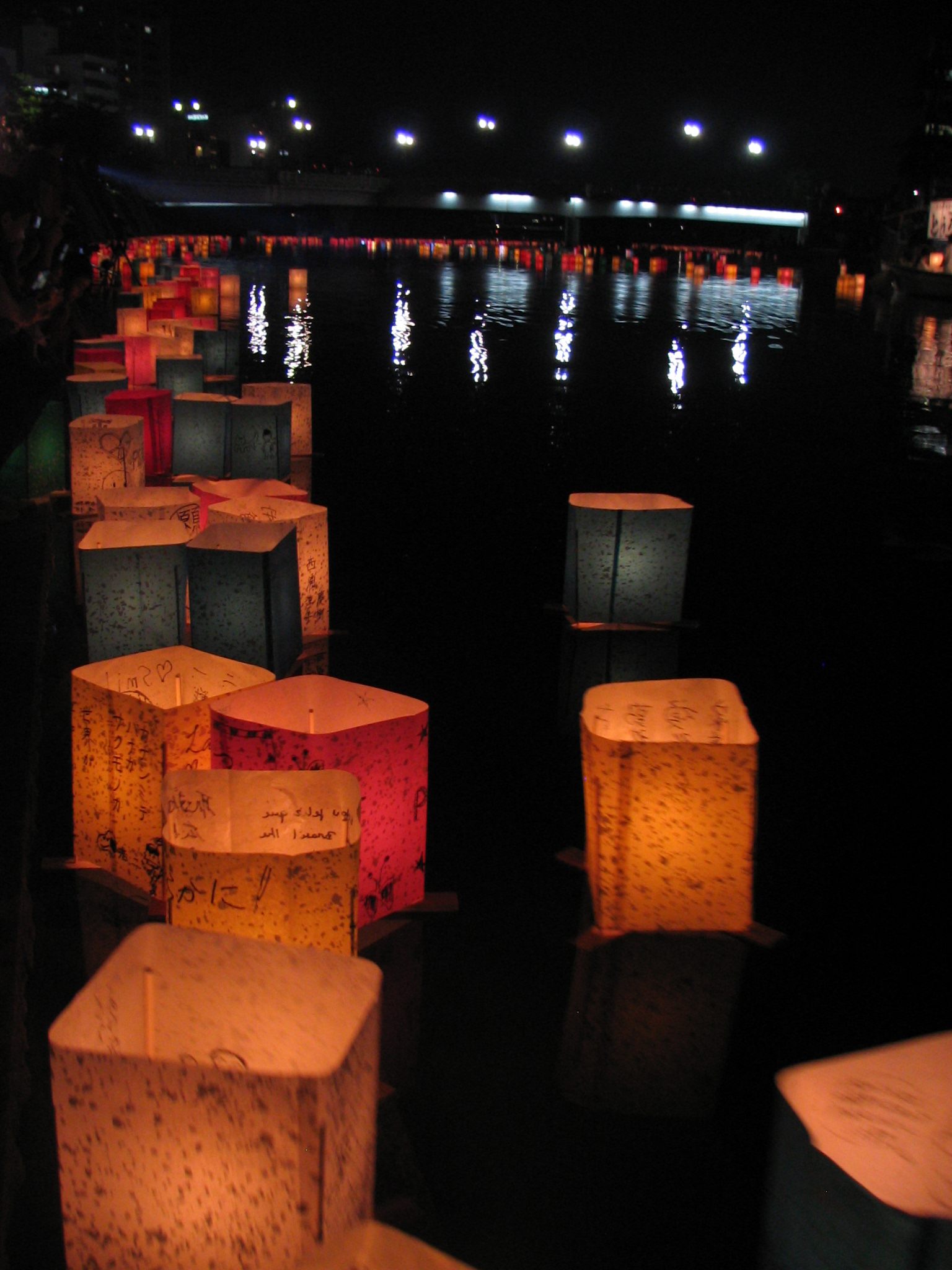 Floating lanterns. Tōrō nagashi float in the river in Hiroshima, as part of the Hiroshima Peace Memorial Ceremony.